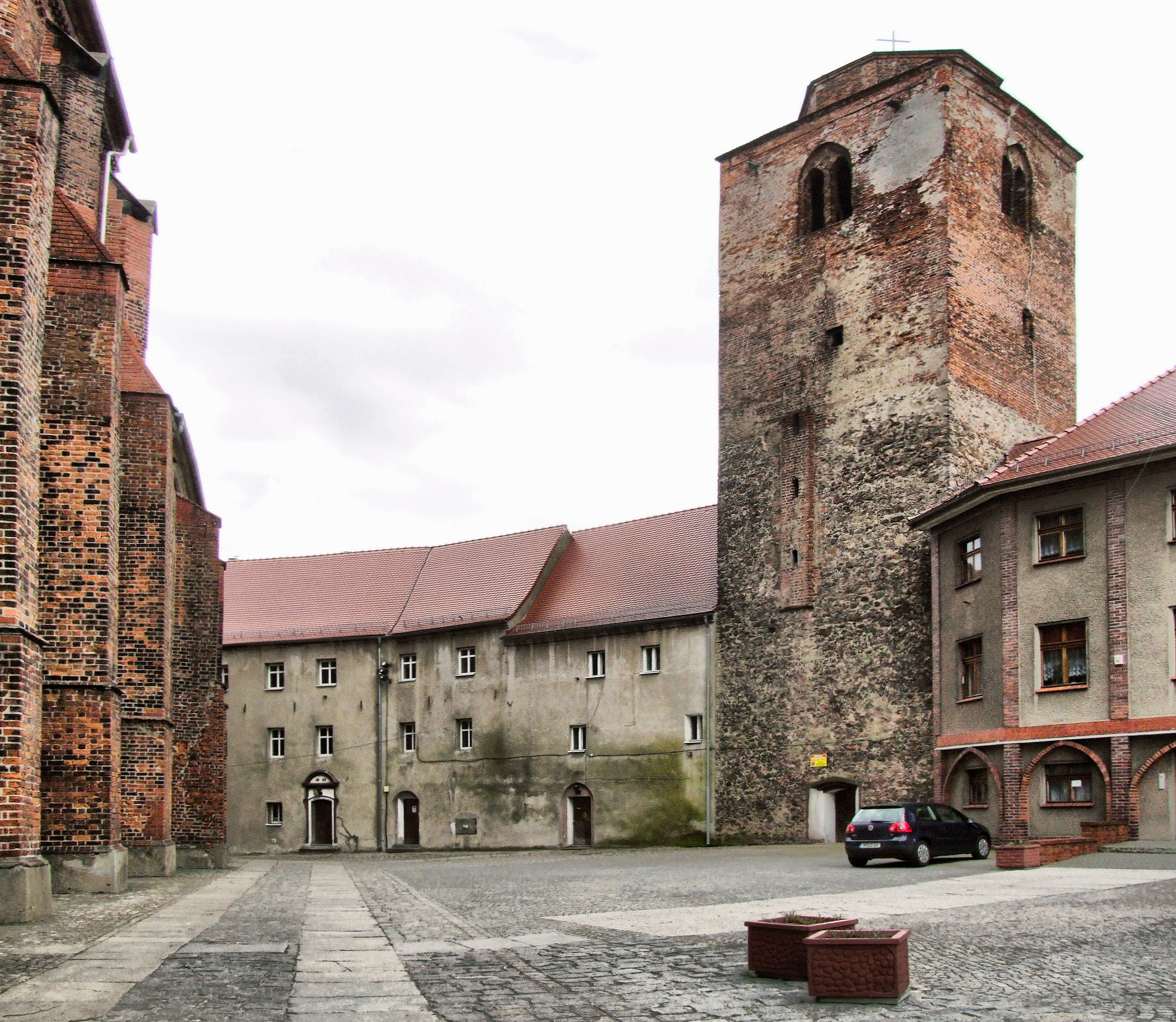 Żary. Buildings in the place of medieval defensive wall